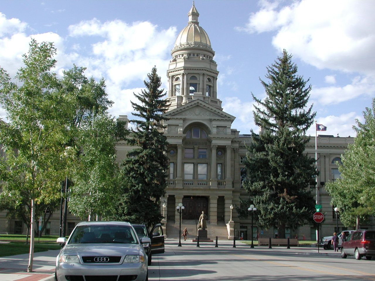 Wyoming State Capitol is Corinthian in style with a central dome and portico reminiscent of the United States Capitol. It has three stories above ground, and one floor below ground. The first two courses of the building are made of sandstone quarried near Fort Collins, Colorado. The remainder is sandstone from near Rawlins, Wyoming. The central dome is covered with 24 carat (100%) gold leaf and has been gilded six times, between 1900 and 1988. It stands 146 ft high and 50 ft wide at its base, and is visible from roads entering the city.